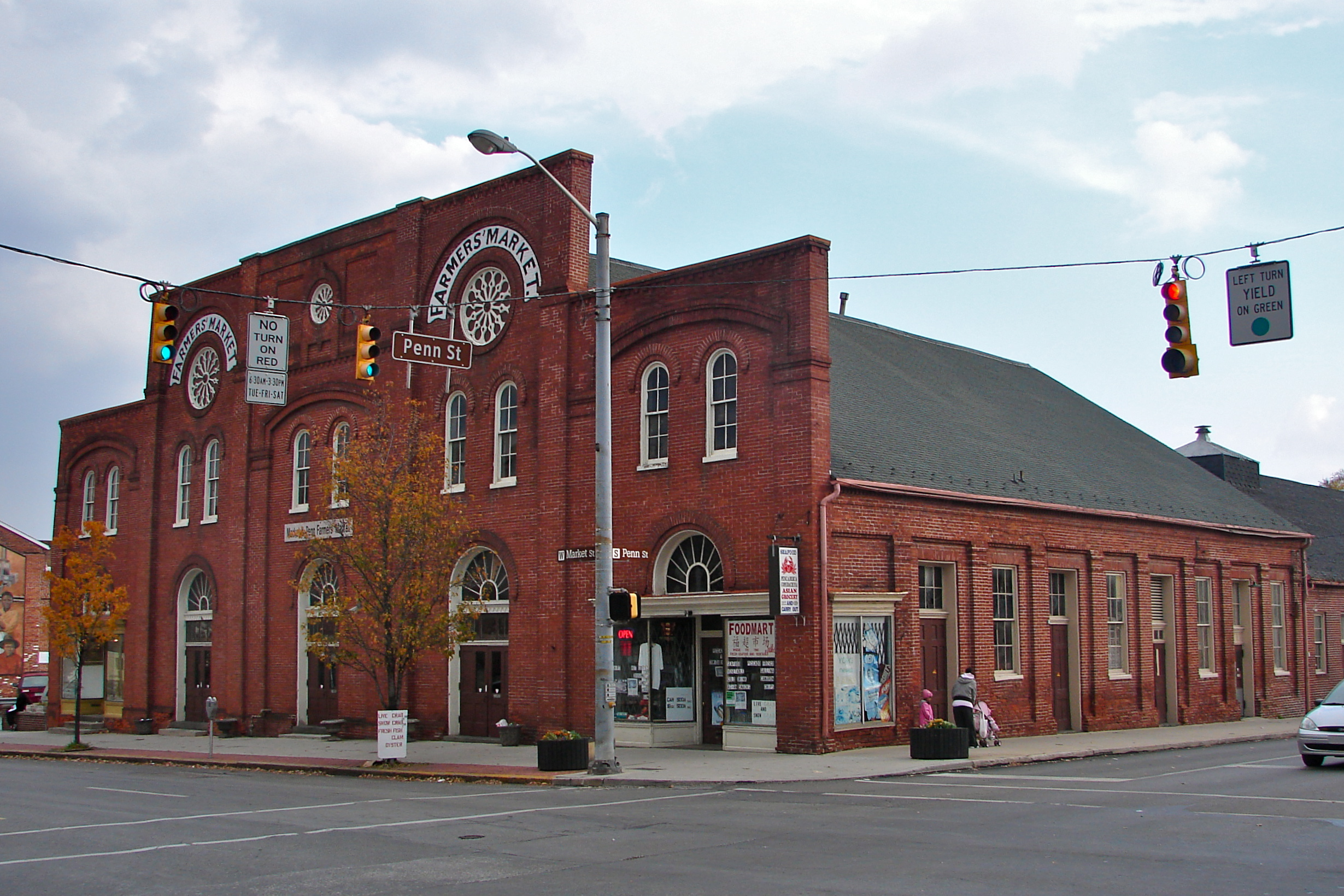 Farmers Market on the NRHP since November 25, 1977. At 380 West Market Street, York, in York County, Pennsylvania. Note that this is not the York (Central) Market, which is not too far away and is also on the NRHP